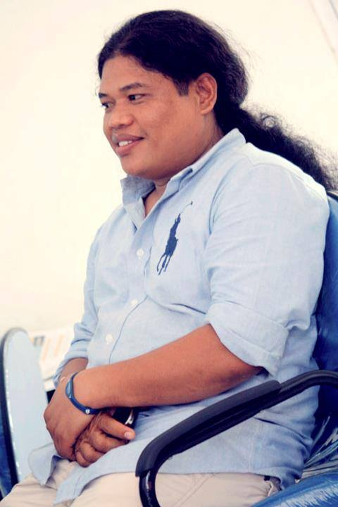 The photo of Manampin Girsang, Indonesian furniture entrepreneur. It has been released to CC-BY-SY 4.0 by the photographer on April 11th, 2015. (proof: en: "I've released the photo to CC-BY-SA license).